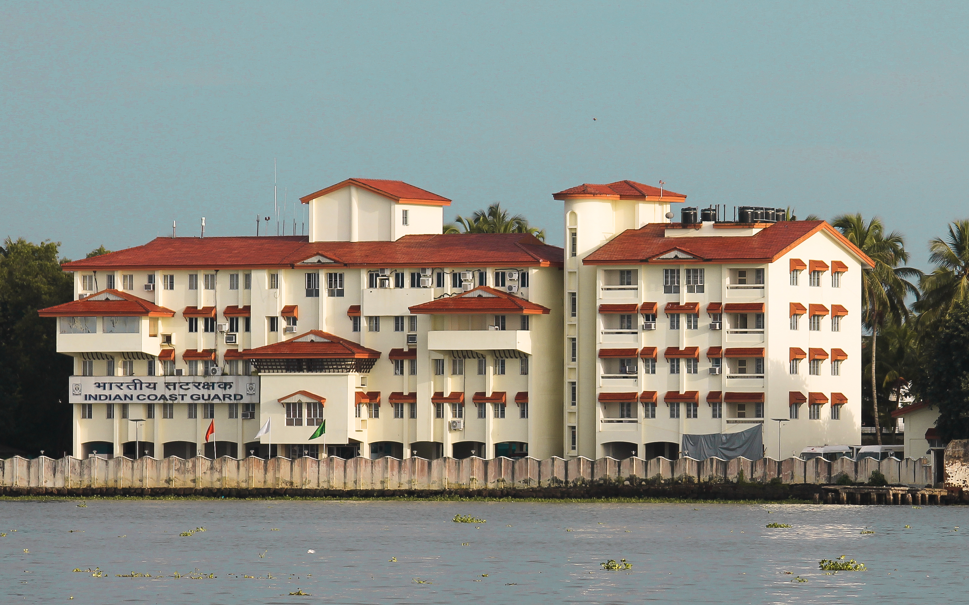 Coast Guard Office, Kochi, Kerala, India